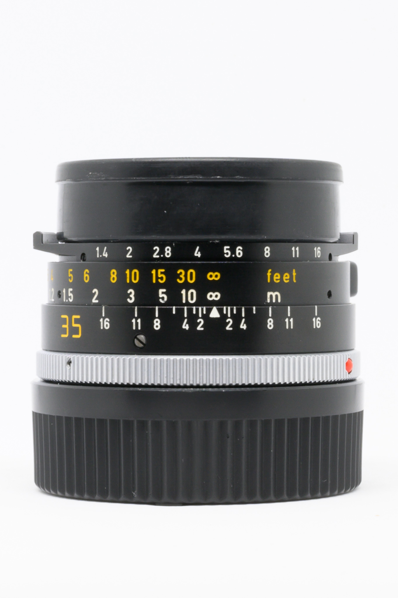 Leica Summilux-M 35mm f1.4